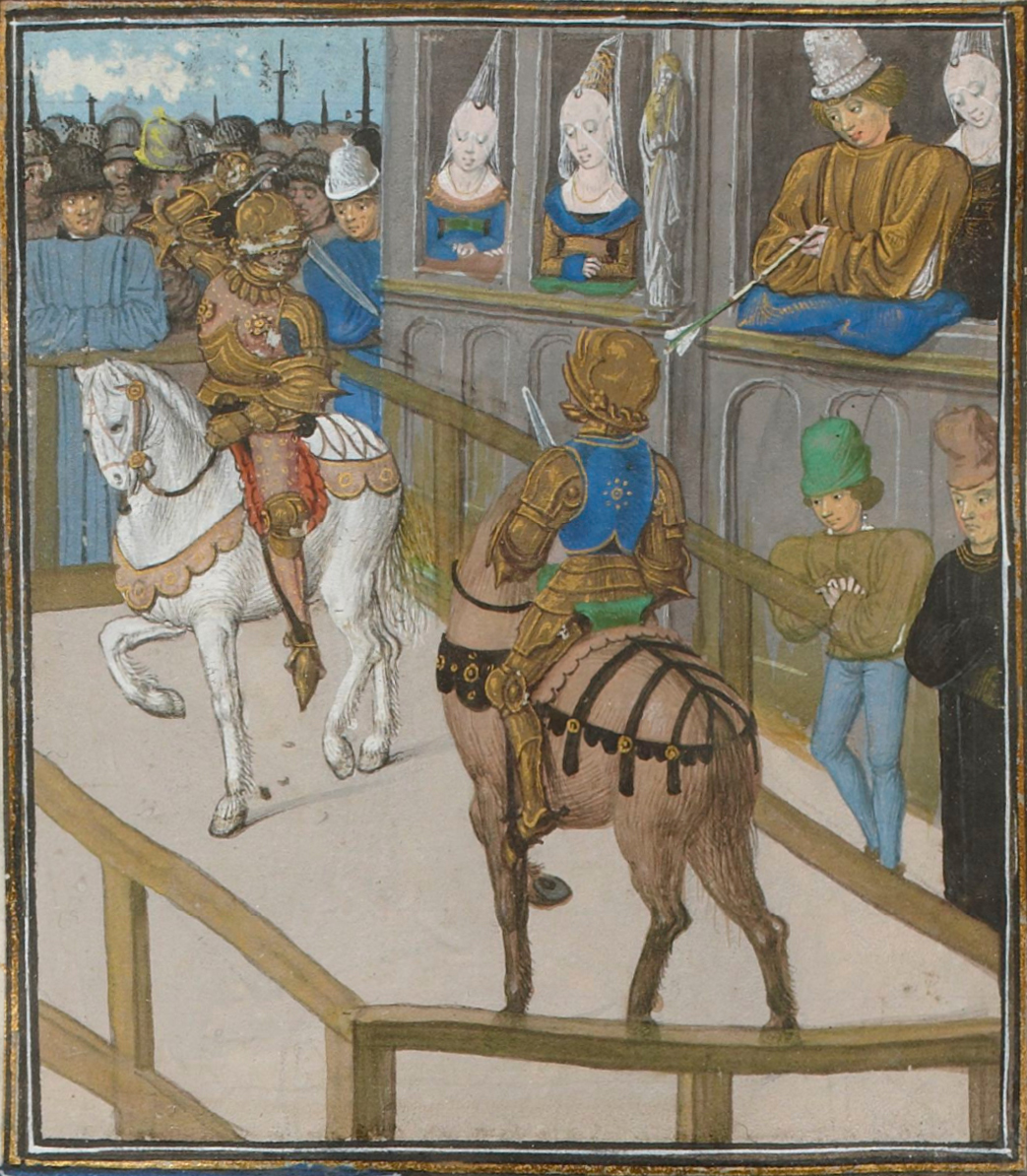 Joust of Betanzos in 1387 between Reginald de Roye and John Holland, which took place in Spain before John of Gaunt; illustration from Jean Froissart's Chroniques.